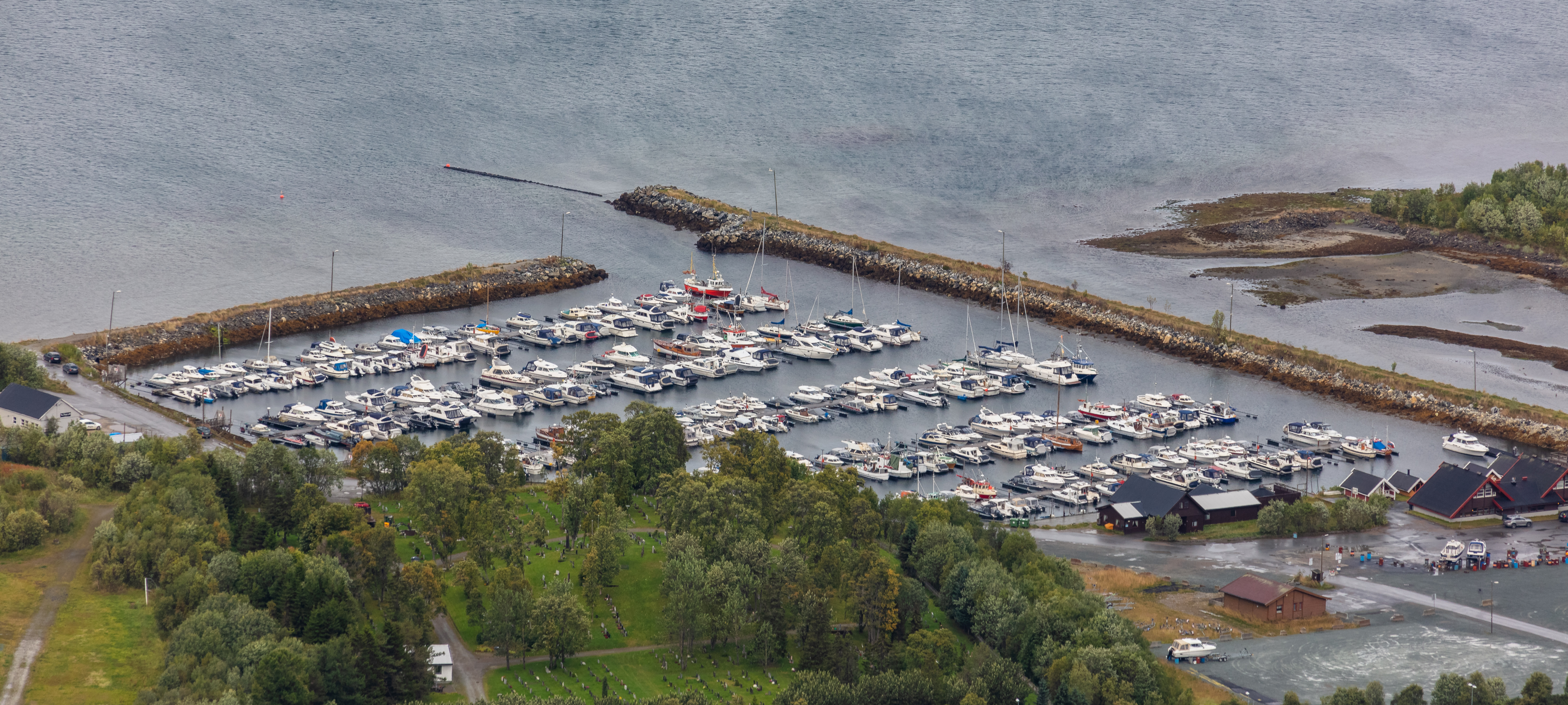 Port of Tromsø, Norway